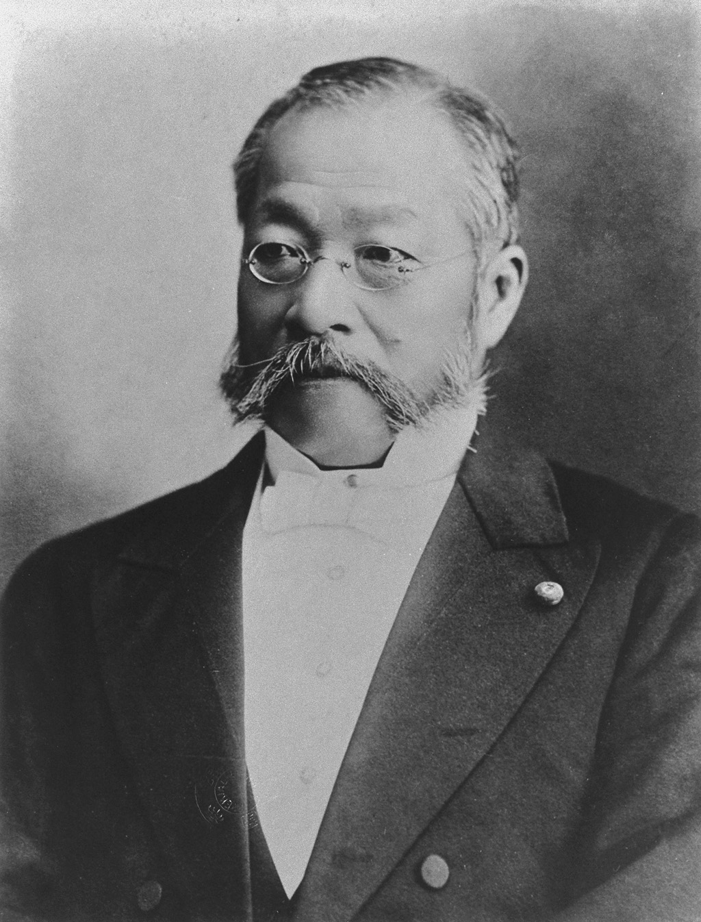 Portrait of Ohigashi Gitetsu (大東義徹, 1842 – 1905)